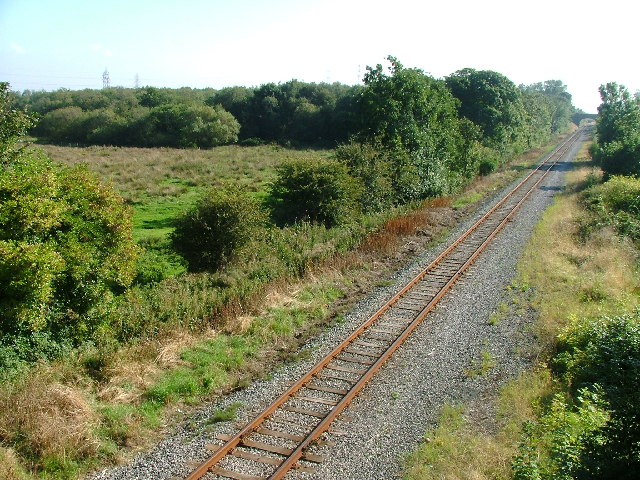 Heysham Moss SSSI, Morecambe, Lancashire. Heysham Moss SSSI (Site of Special Scientific Interest) is a small site situated on the east side of the Morecambe - Heysham railway, some two miles south of Morecambe. It has only recently been opened to the public. Part of this moss supports bog vegetation the rest being covered in wet woodland. It occupies a natural depression on the coastal plain of the Lune Estuary and is a surviving core fragment of a much larger mossland shown on eighteenth century maps.